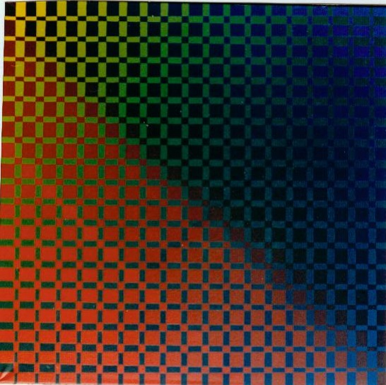 Durchdringung